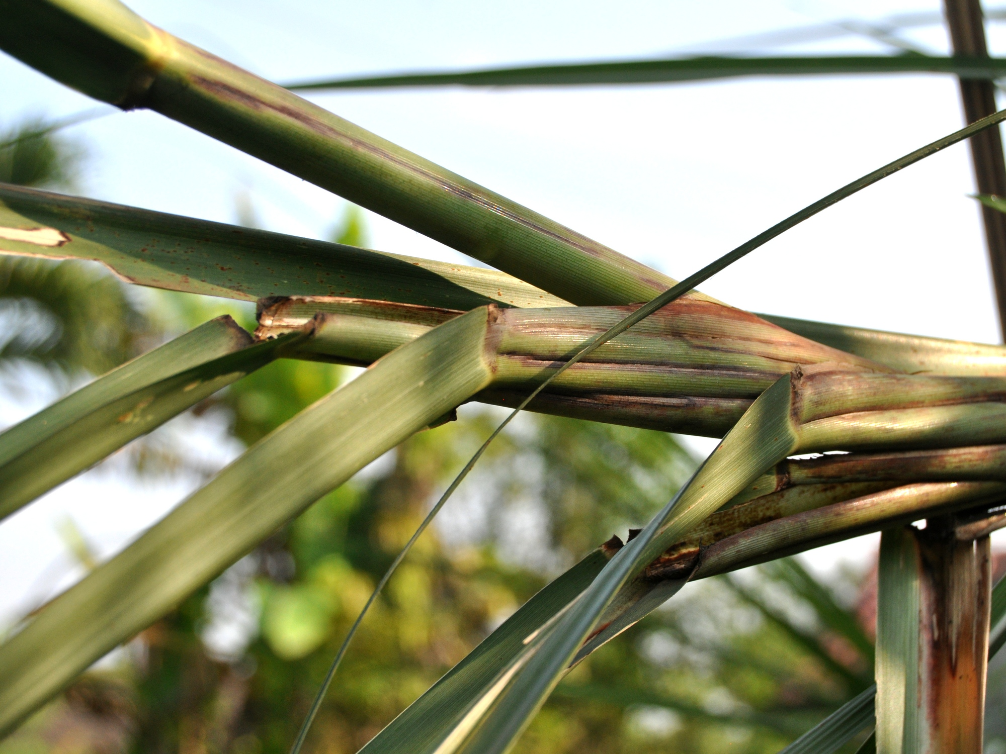 Wild cane, Saccharum spontaneum. From Bogor, West Java, Indonesia.